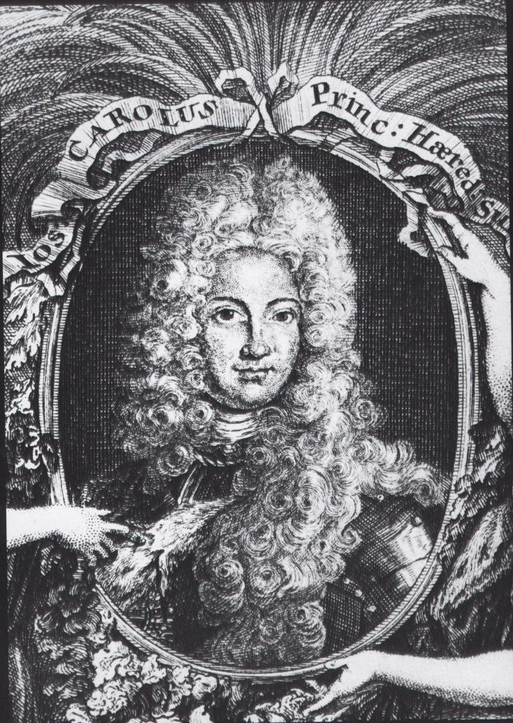 Erbprinz Joseph Karl von Pfalz-Sulzbach (1694-1729)